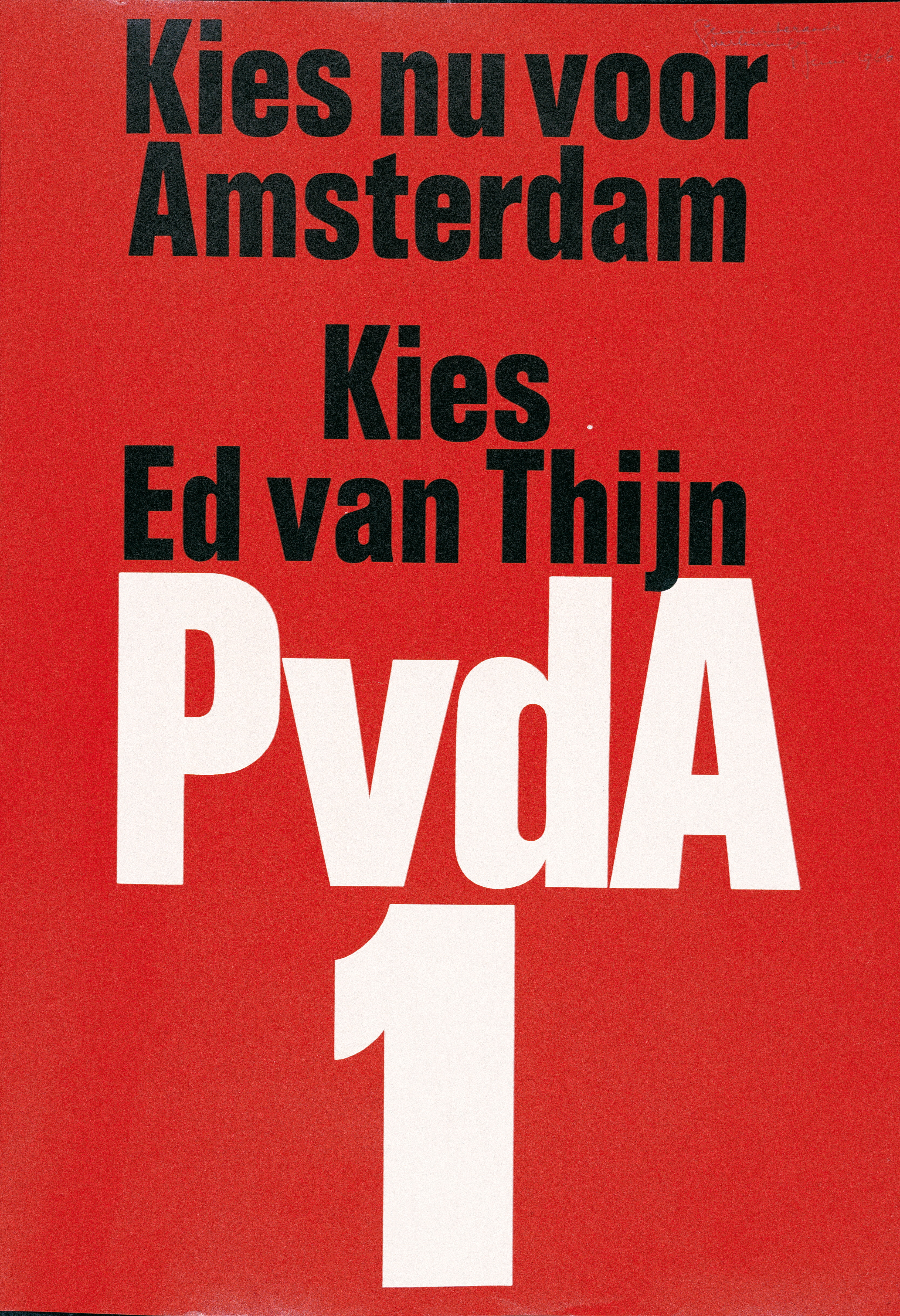 "Choose now for Amsterdam - Choose Ed van Thijn - PvdA"